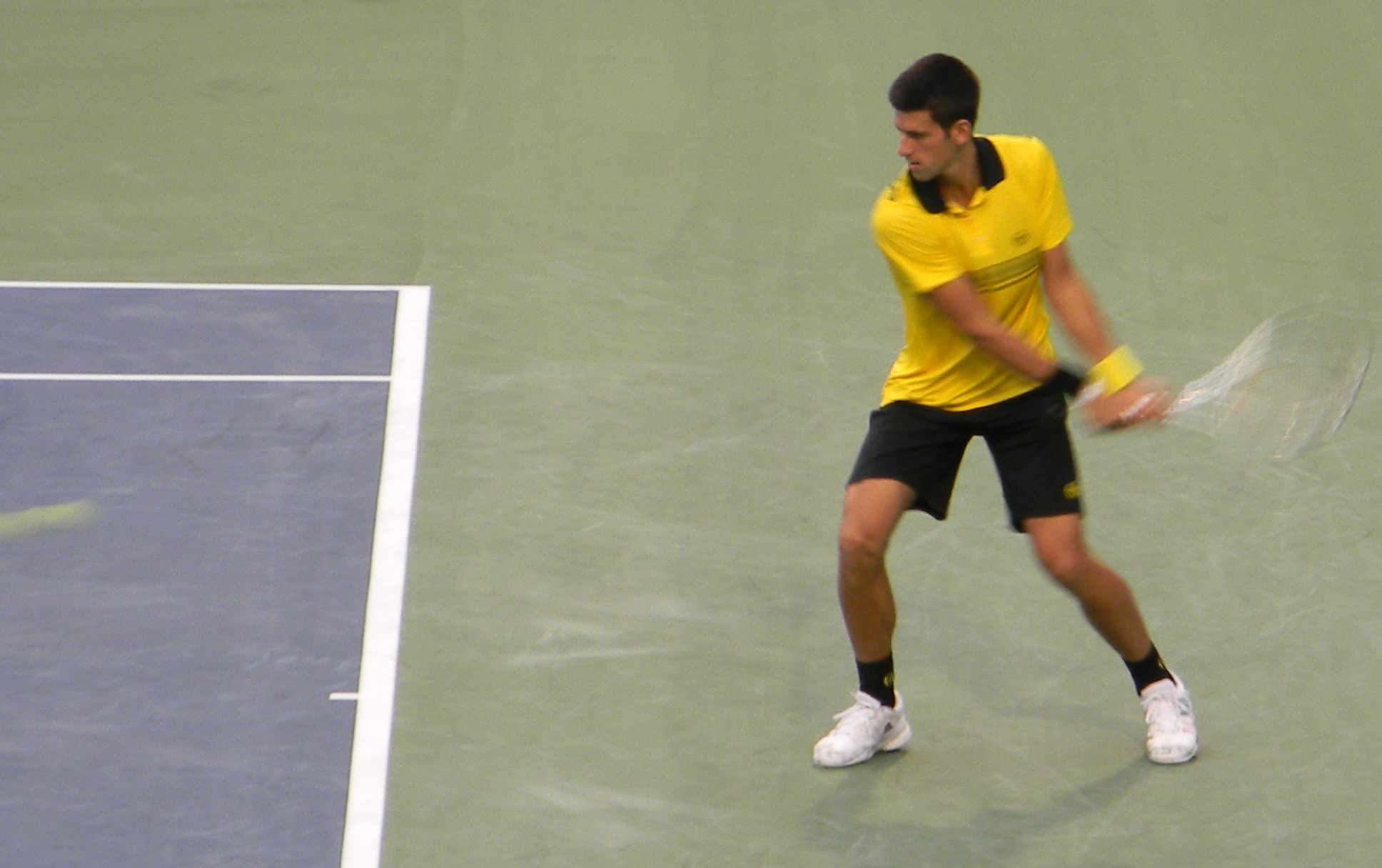 Novak Đoković vs Roger Federer on 2010 Rogers Cup Semifinal game in Toronto, Rexall Centre 1:2 (1:6, 6:3, 5:7)